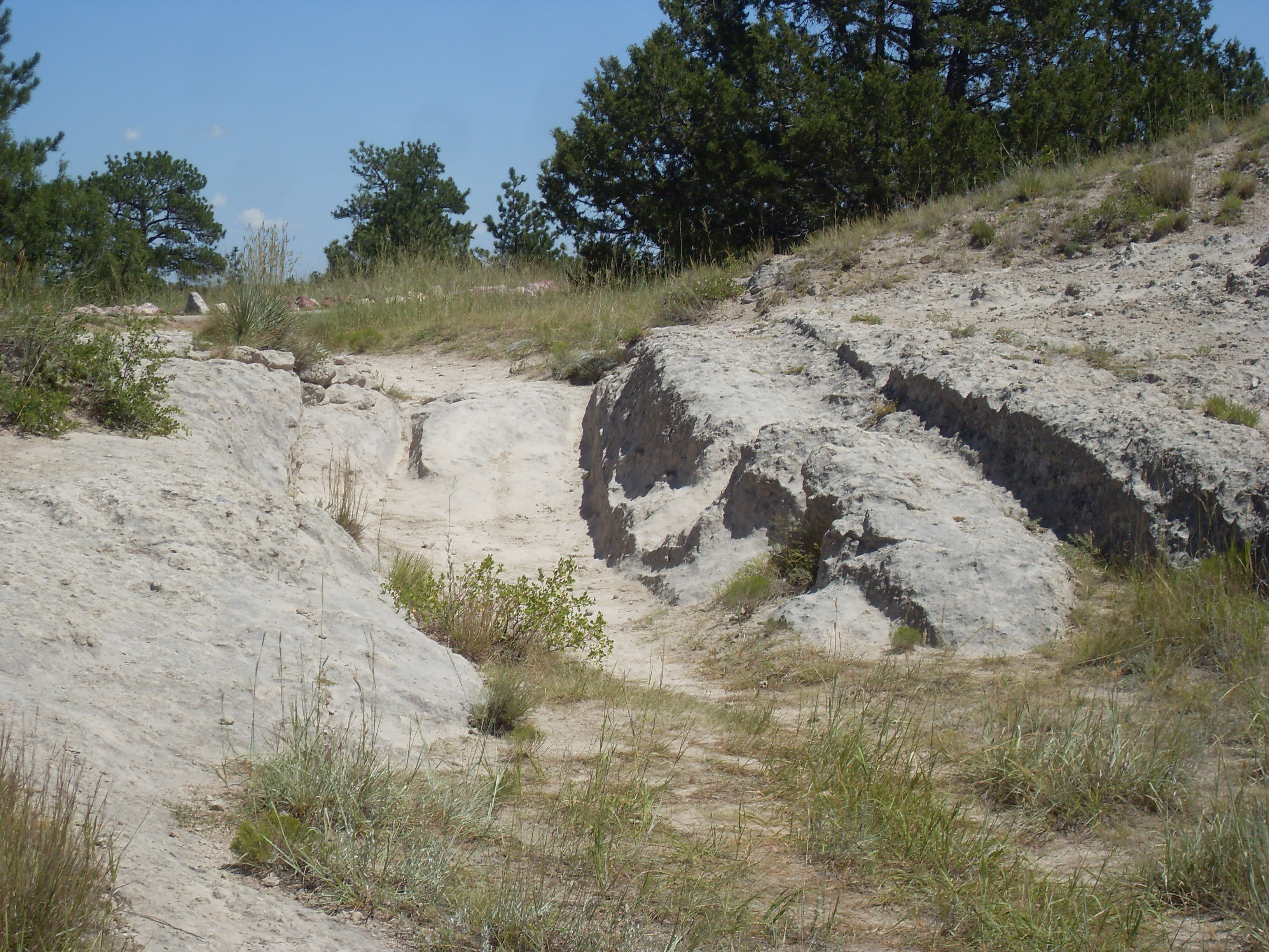 Oregon Trail Ruts: is a preserved site of wagon ruts of the Oregon Trail on the North Platte River, about .5 miles south of Guernsey, Wyoming